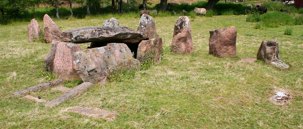 Queen Hacka’s grave